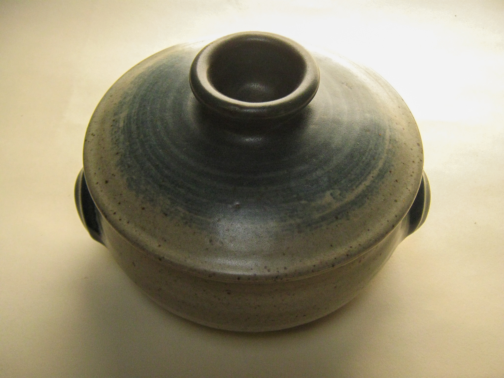 Pottery rice steamer by Ian Sprague; photographed in a private collection at Enfield Victoria